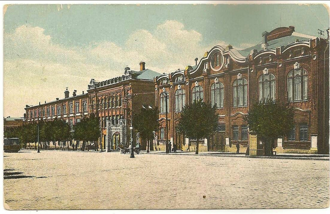 Rostov-on-Don, Russia, Mashonkin Theater and Kushnaryov's factory